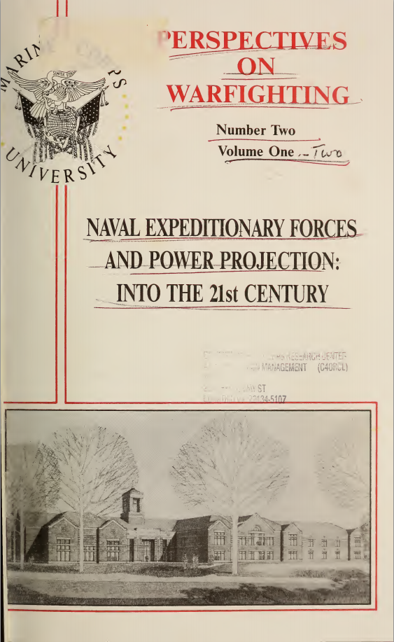 Front cover of "Naval expeditionary forces and power projection : into the 21st century", published in 1992 by the Marine Corps University, stemming from a 1991 conference conducted The Fletcher School of Law and Diplomacy's International Security Studies Program, and the Institute for Foreign Policy Analysis.